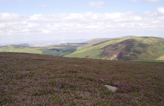 Heather moorland in the Cheviot Hills. Looking NNW from the northern slope of Scald Hill, which is entirely covered in heather. Blackseat Hill is beyond, on the right of the photo, with the Tweed Valley in the far distance.